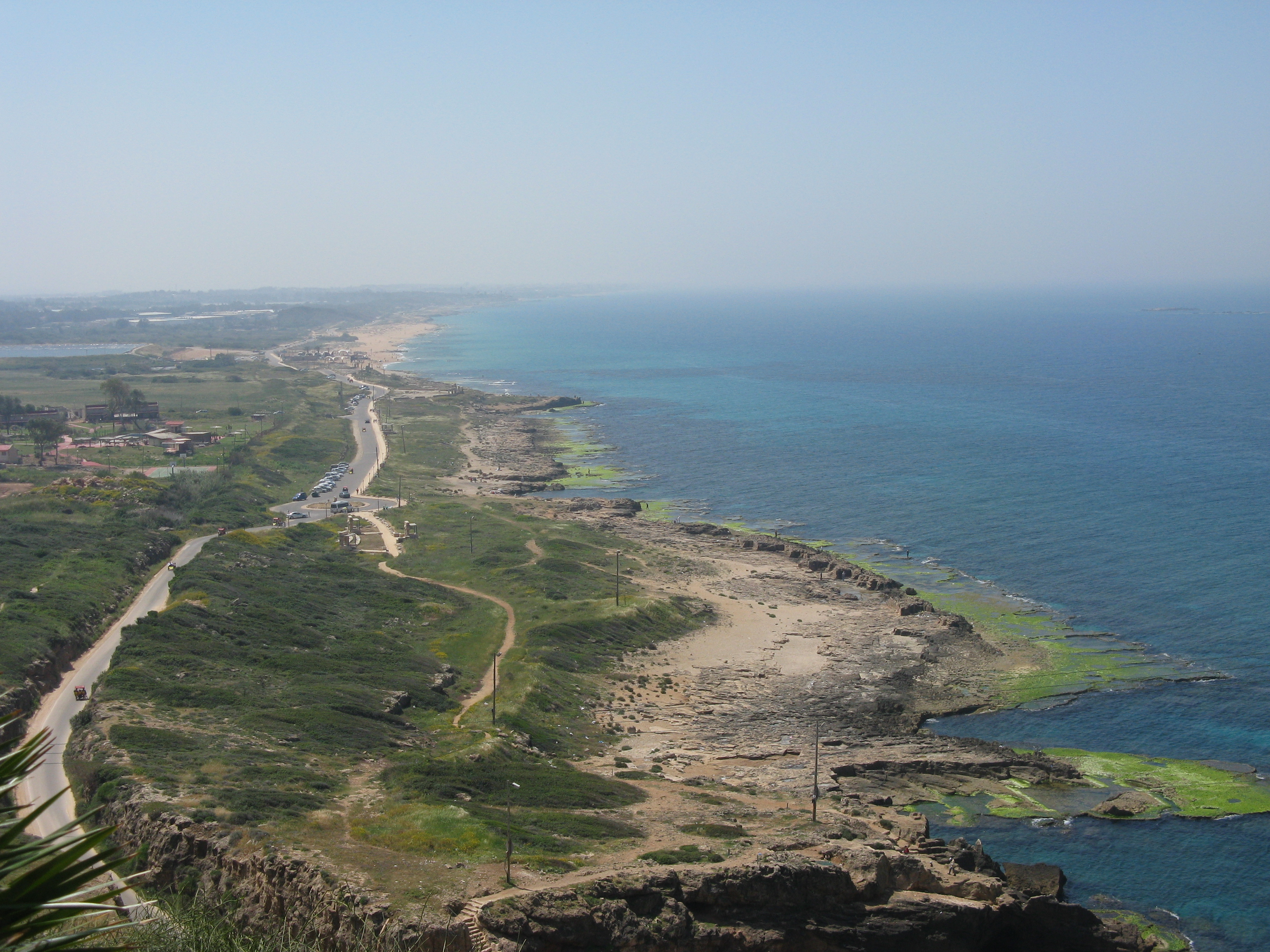 View from Rosh Hanikra mount.